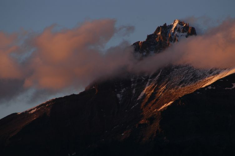 La Grivola, Italy